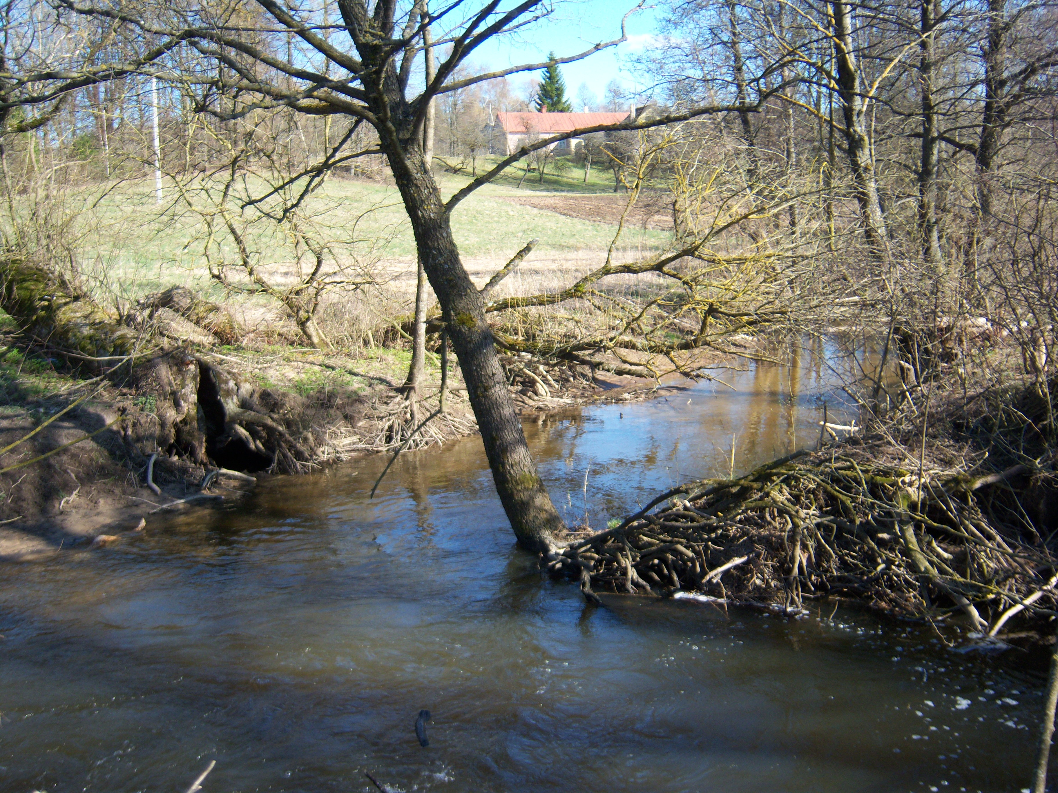 Dūmė stream, Prienai district, Lithuania